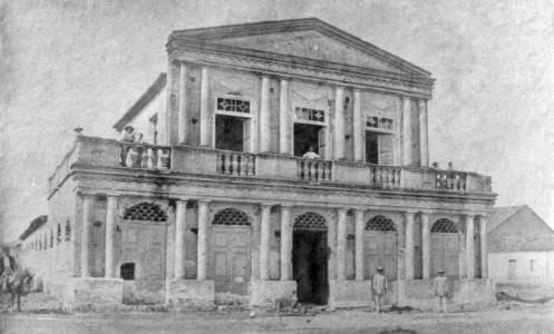 Teatro da Ribeira dos Icós, Icó, CE, built 1860